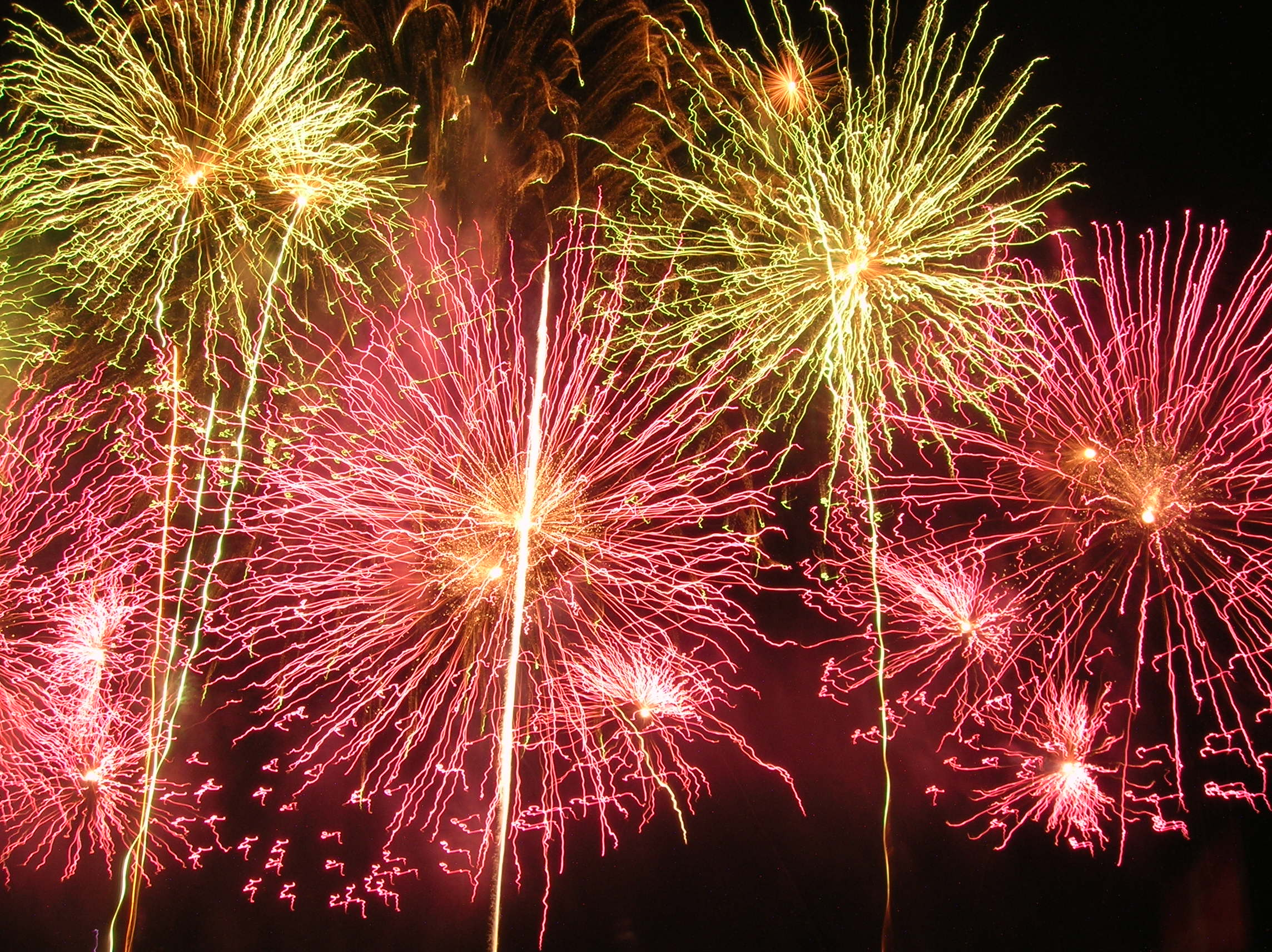 Firework of Lake of Annecy festival 2005